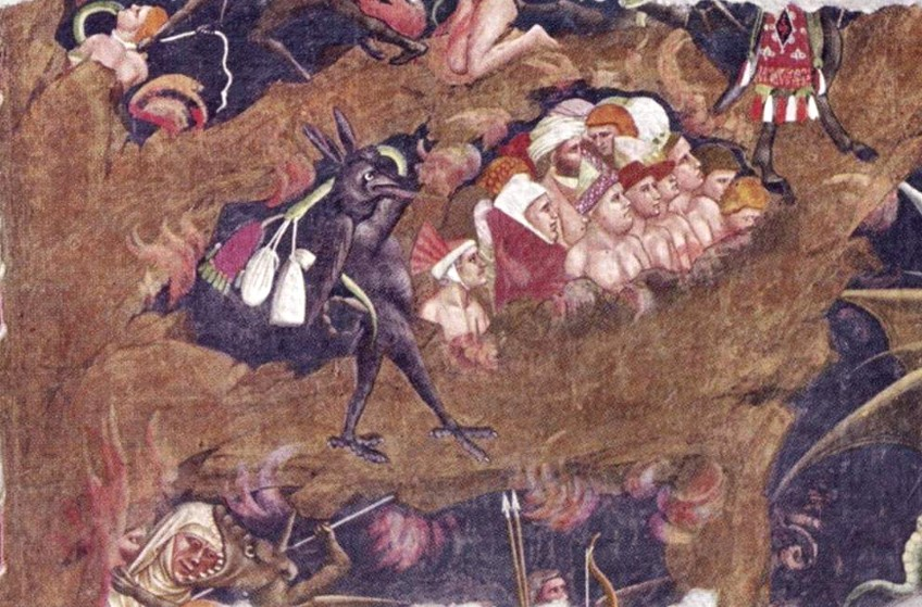 Orcagna, Triumph of Death, Santa Croce, Florence, detail